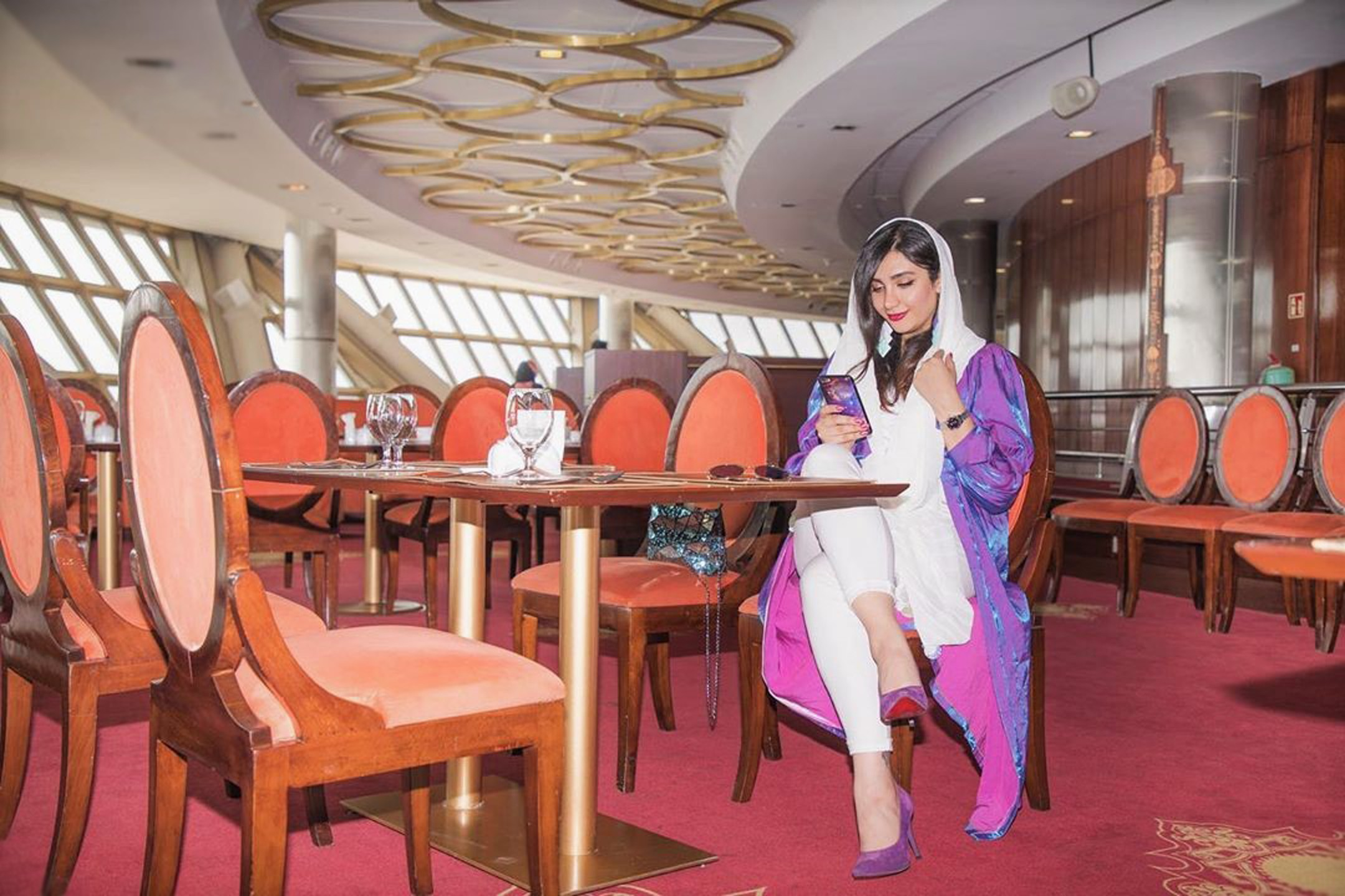 Milad Tower Revolving Restaurant In August 2019. I'm the photographer and Cropped and compacted the file for better using in wiki.